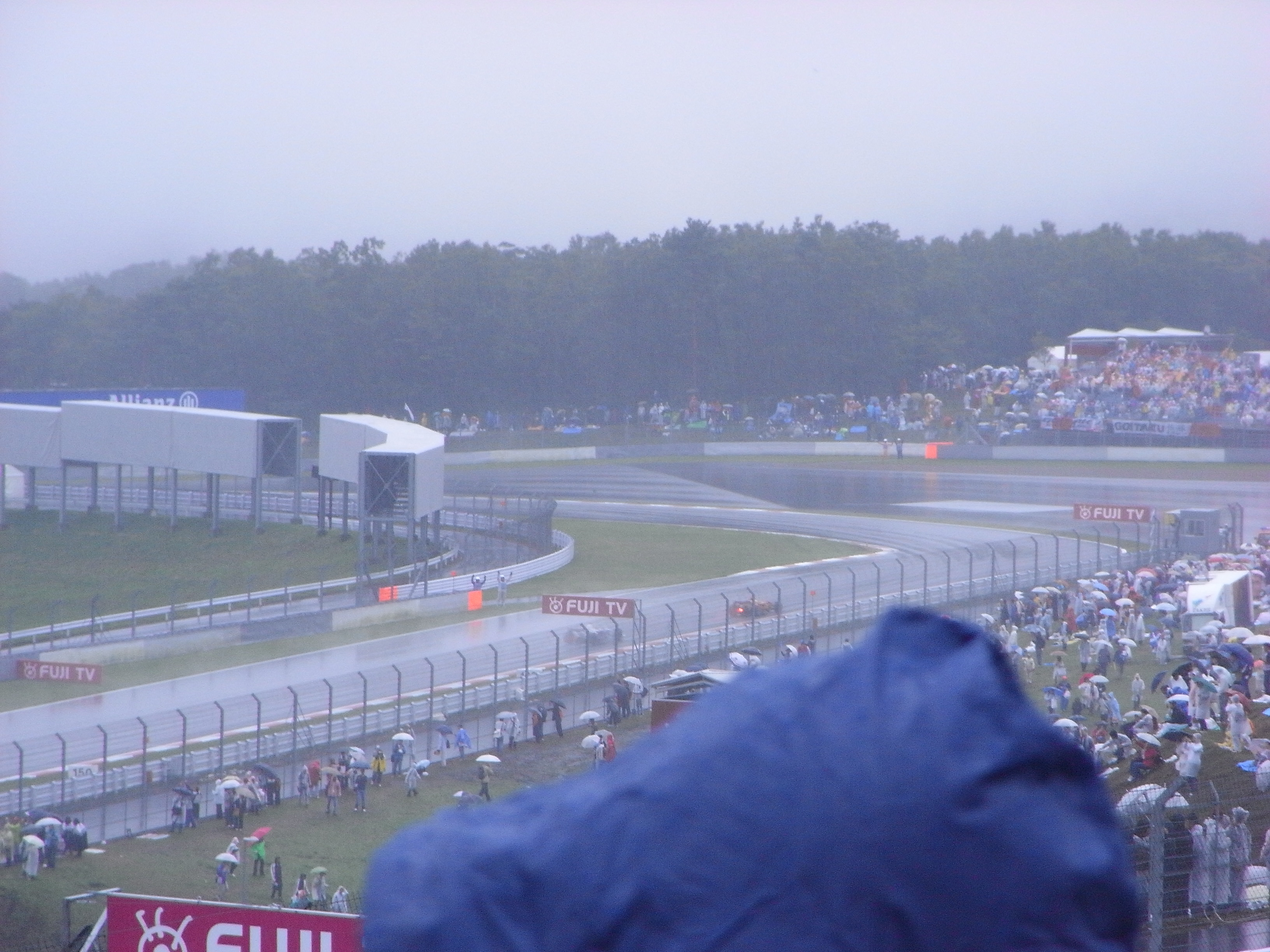 2007 Japanese Grand Prix